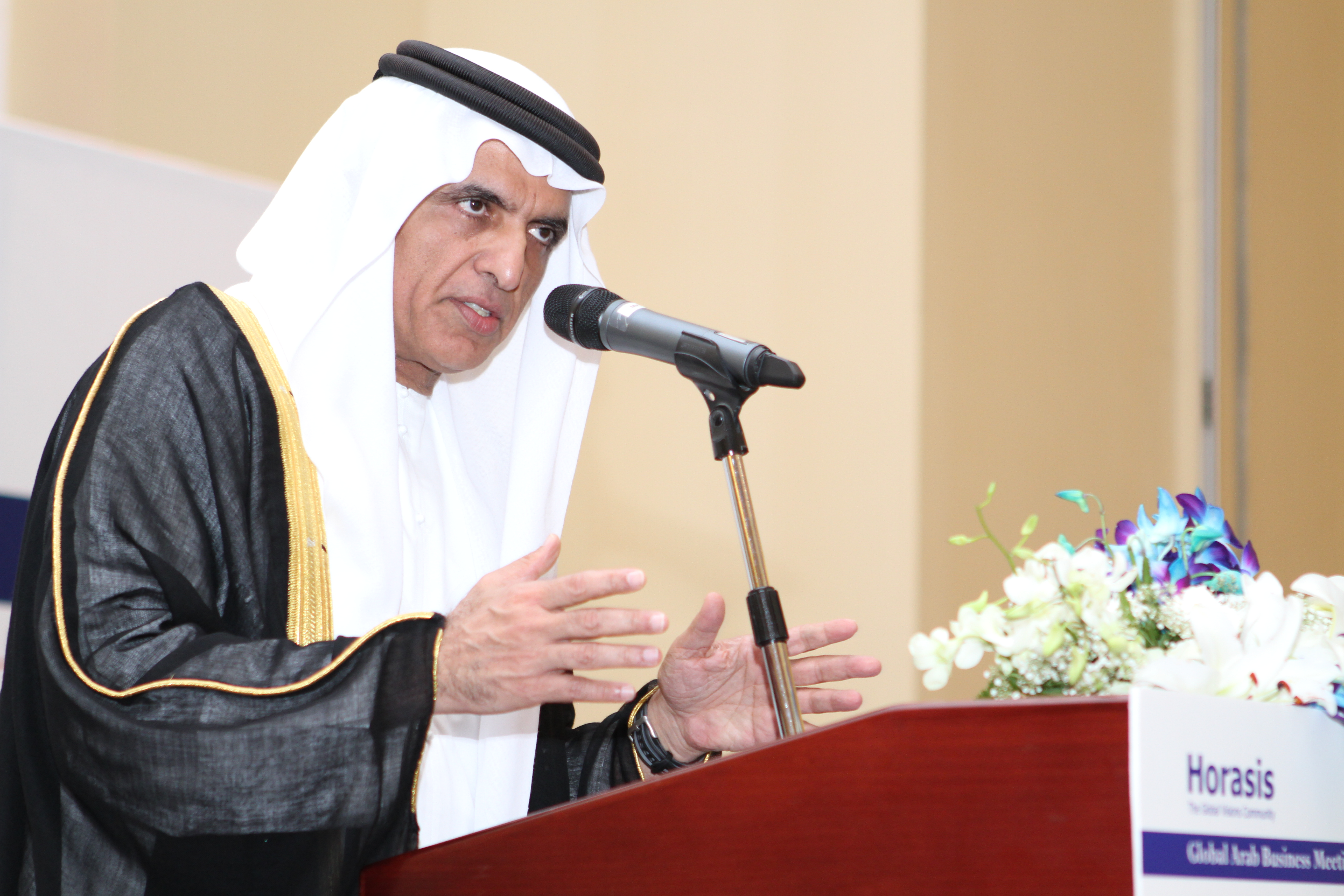 H.H. Sheikh Saud Bin Saqr Al Qasimi, The Ruler of Ras Al Khaimah, speaking during the opening dinner of the 2012 Horasis Global Arab Business Meeting, 9 December 2012